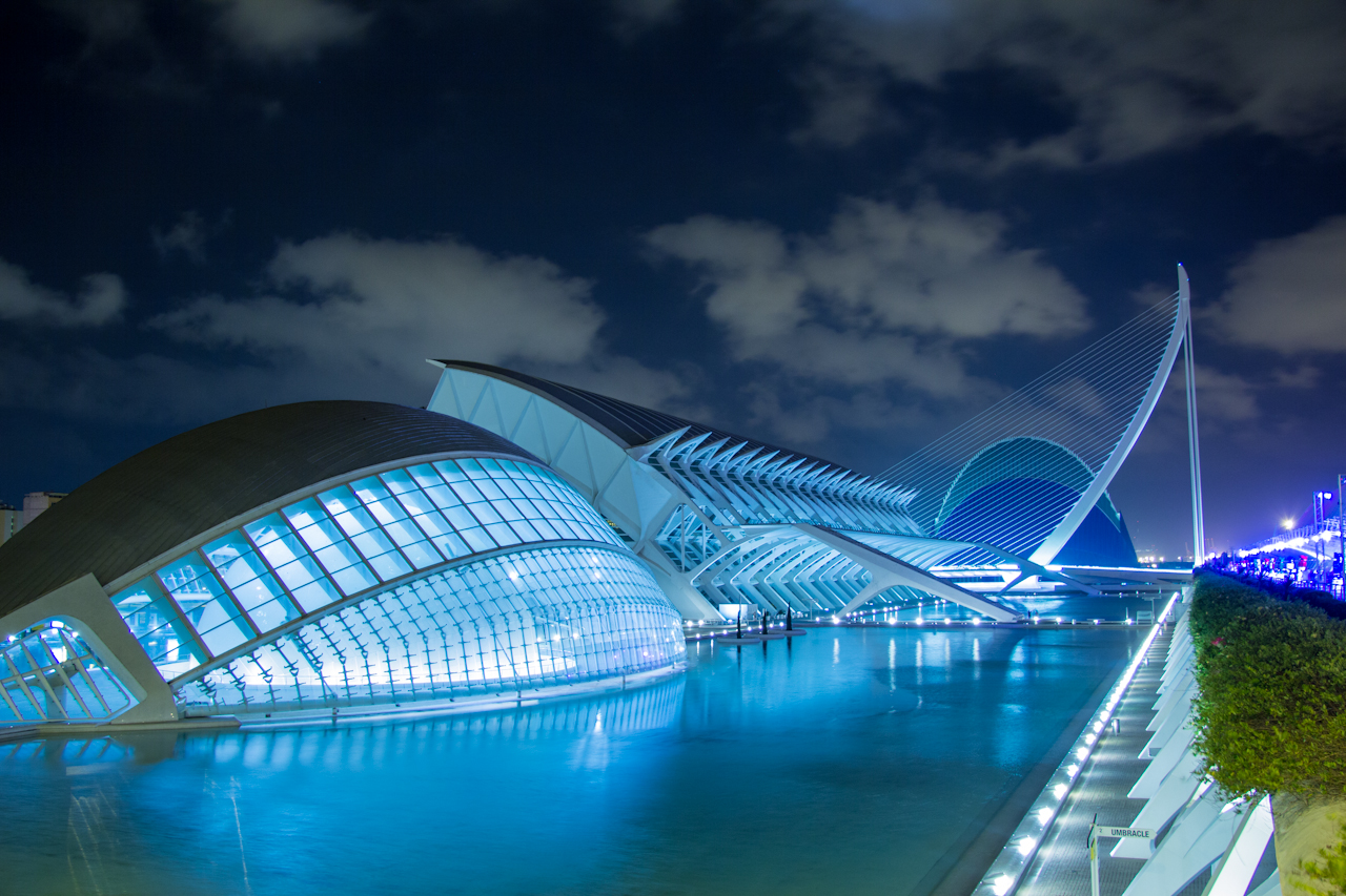 La ciudad de las ciencias y las artes